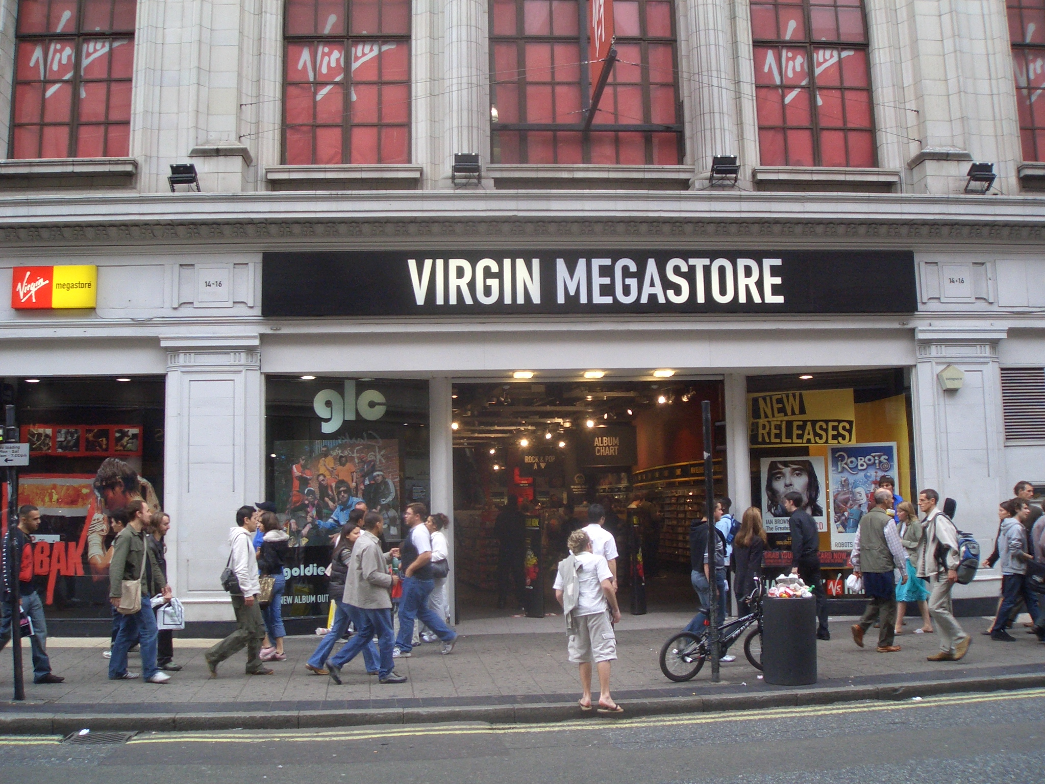 Virgin Megastore on Oxford Street, London, England. Since this photograph was taken, the shop has been shut down. Photo taken by User:Edward